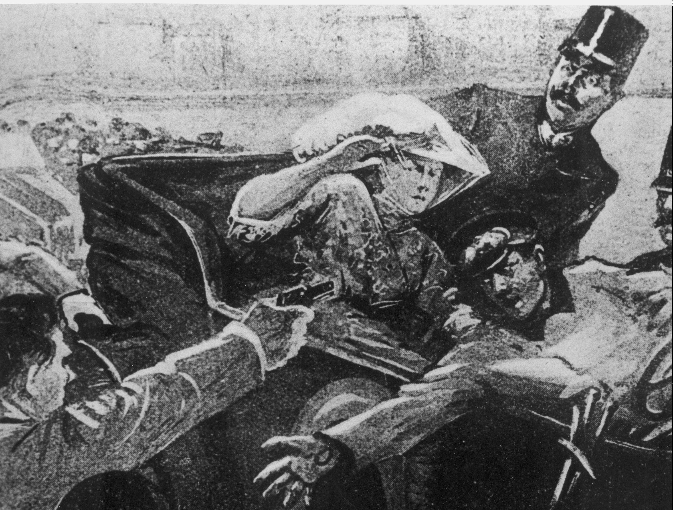 Painting of Assassination